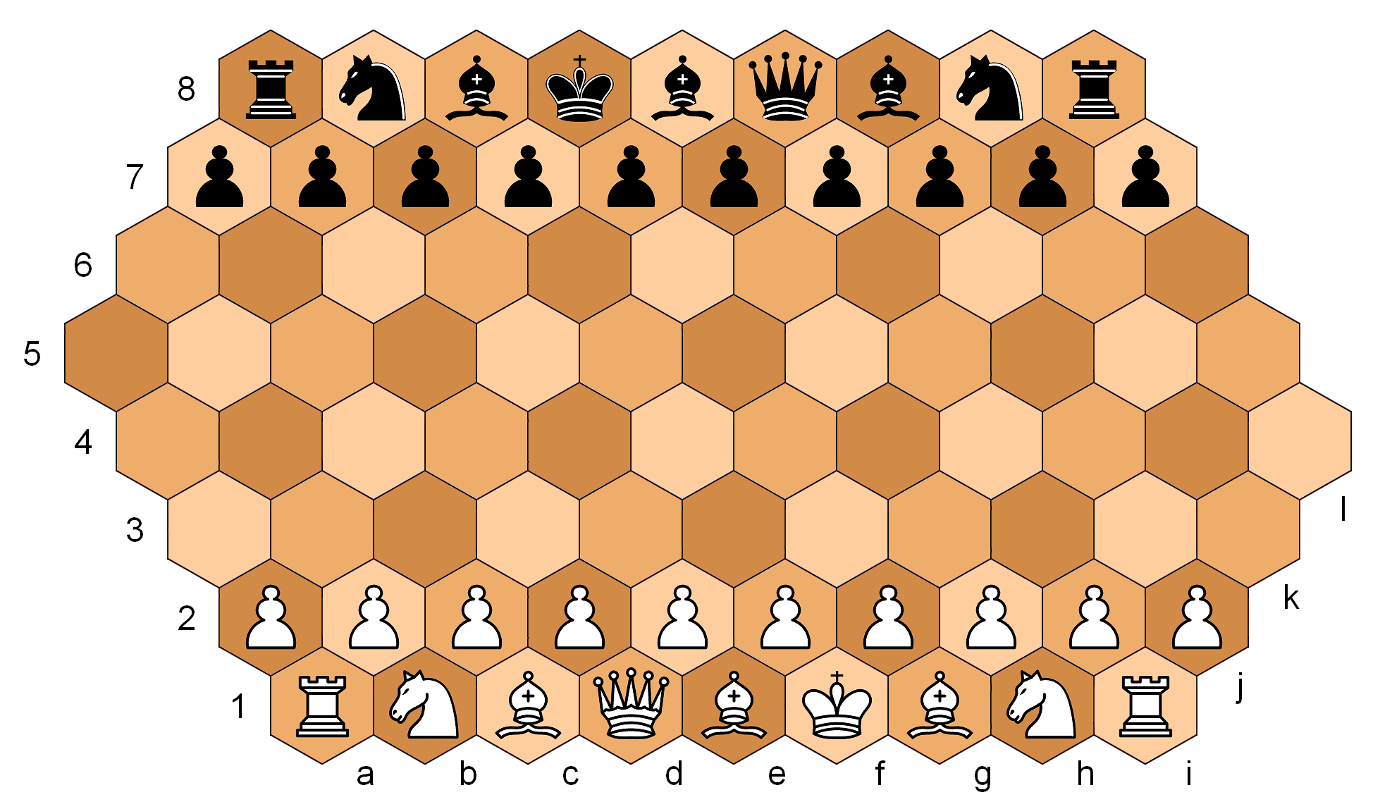 Brusky's hex chess, board and initial configuration. Made in PAINT using ProjChess colors and the great chess icons fashioned by David Benbennick (User:Dbenbenn).